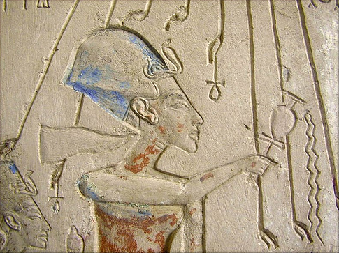 Detail of the reliefs of the pylons of the house of Panehsy, Chief Servitor of the Aten. It depicts Akhenaten, Nefertiti, and princess Meritaten (invisible here) making offerings to the Aten. 18th dynasty, reign of Akhenaten